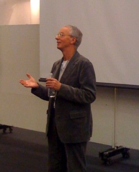 Gijs Bakker at the Harvard GSD